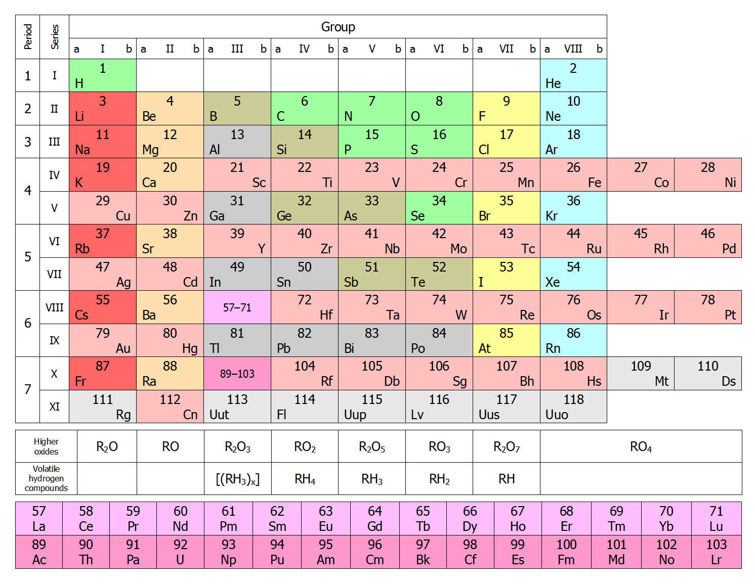 Short form periodic table, with oxide and hydride formulae